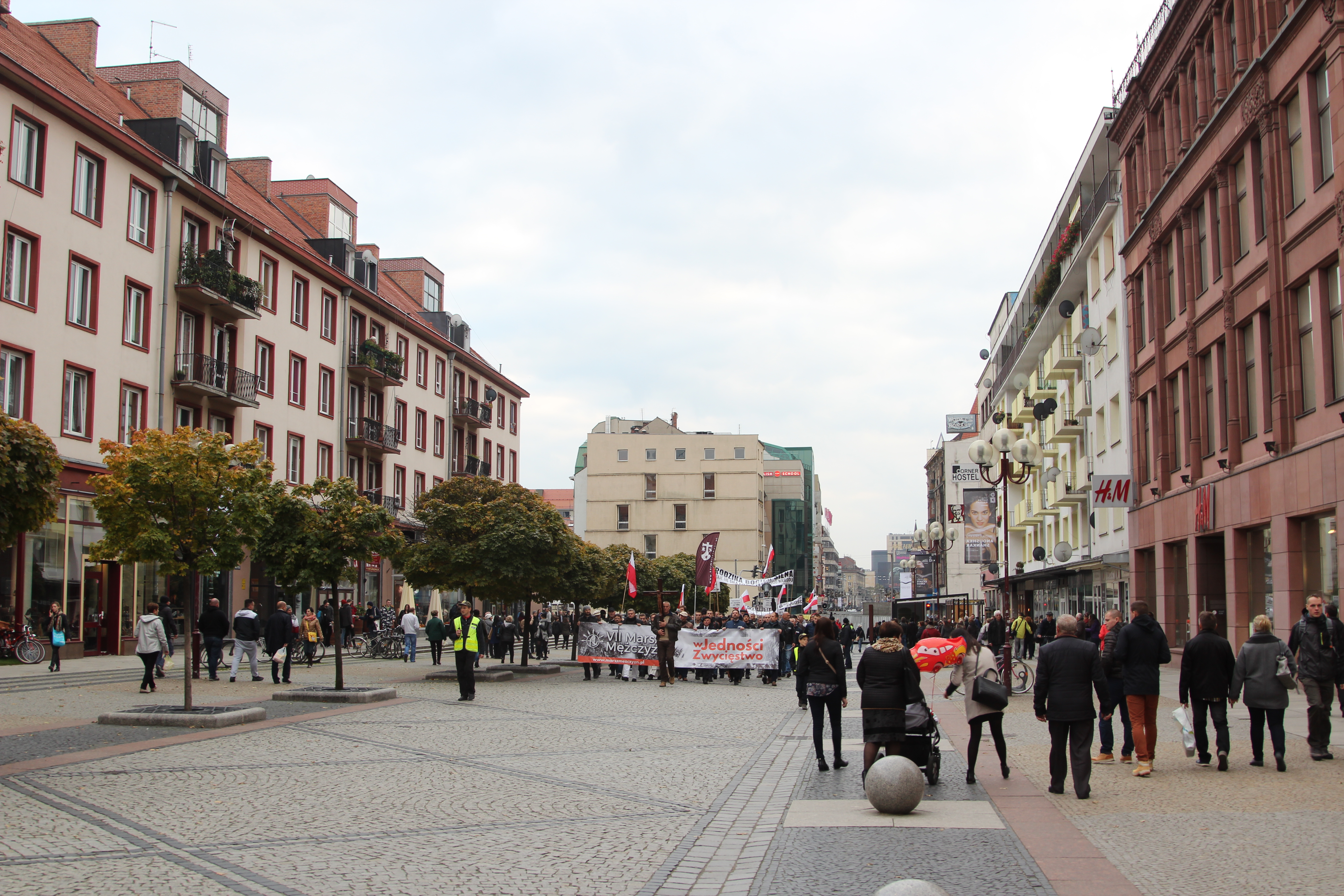 Men's March in Wroclaw in 2006